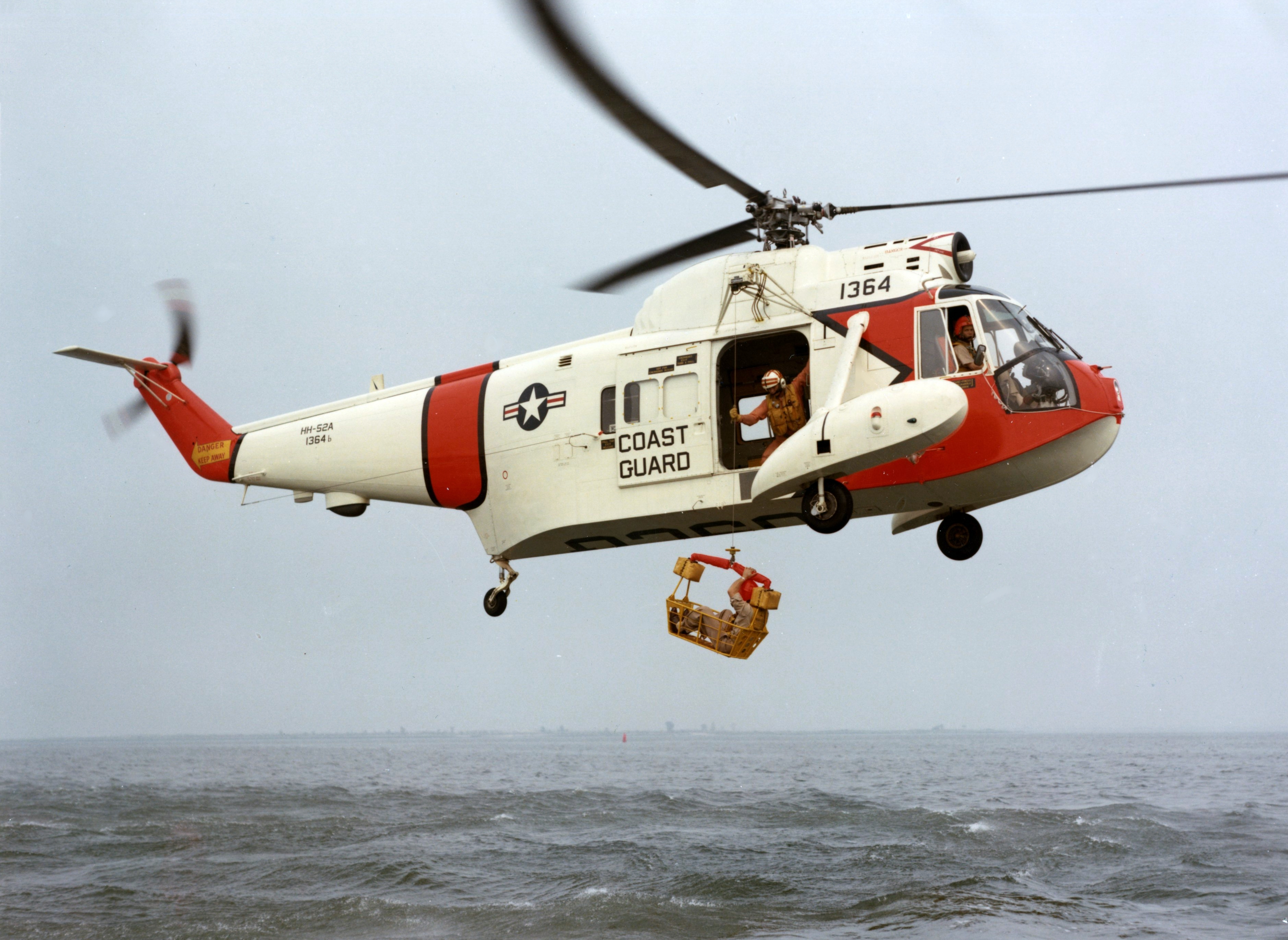 A U.S. Coast Guard Sikorsky HH-52A Seaguard helicopter (s/n 1364) with a rescue basket. "Although the rescue basket and hoist had been developed and put into use by the time the HH-52 entered service the Coast Guard did not have the trained personnel to actually jump in the water to assist injured or incapacitated survivors. The only exception to this was if the co-pilot volunteered to jump in (and the aircraft commander approved)--the aircrewman had to stay on board the aircraft to operate the hoist; consequently survivors were required to get into the lowered basket themselves. Some units experimented with what became known as rescue swimmers but it was not until the 1980s that the service formally instituted a rescue swimmer program." (USCG)